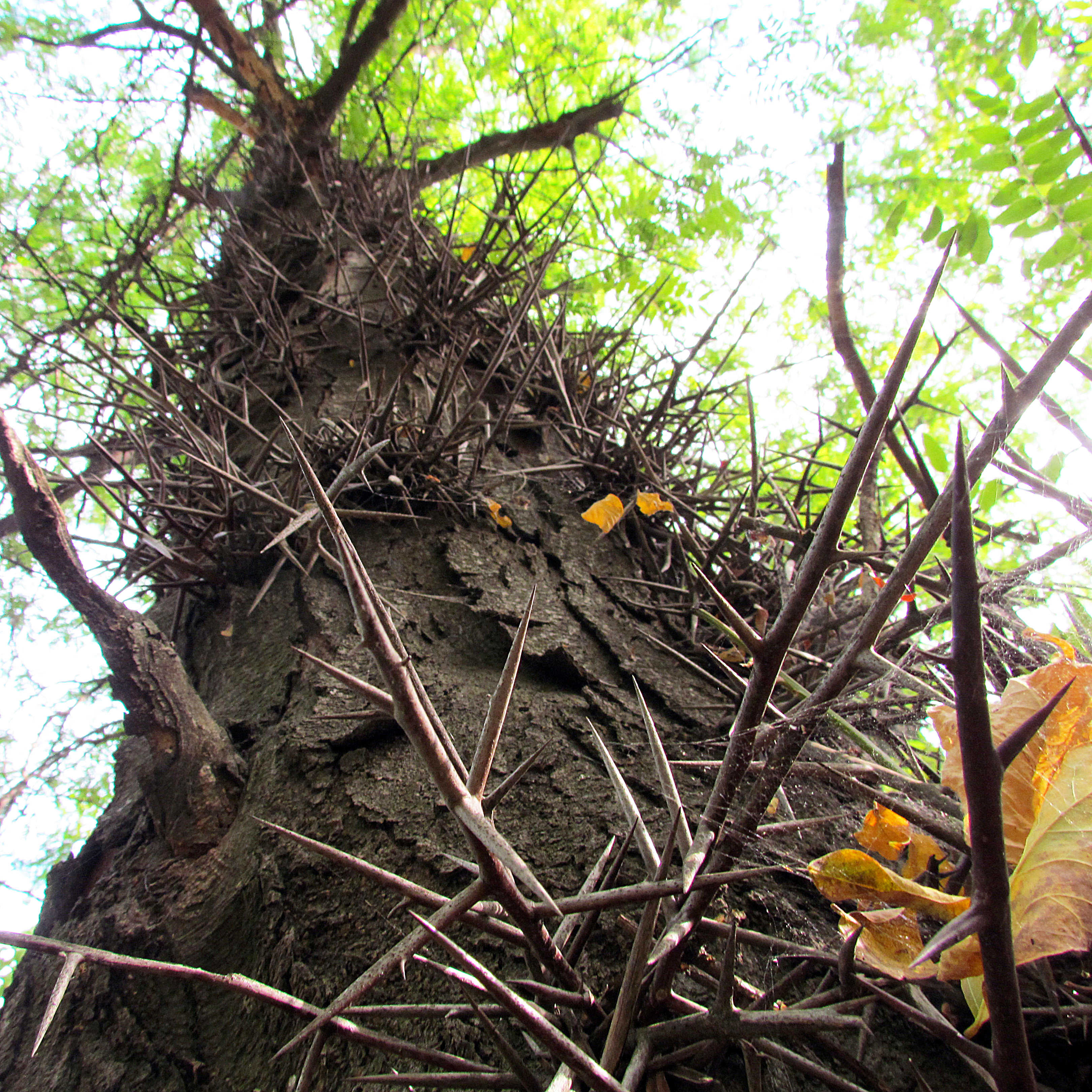 Gleditsia triacanthos thorns and bark